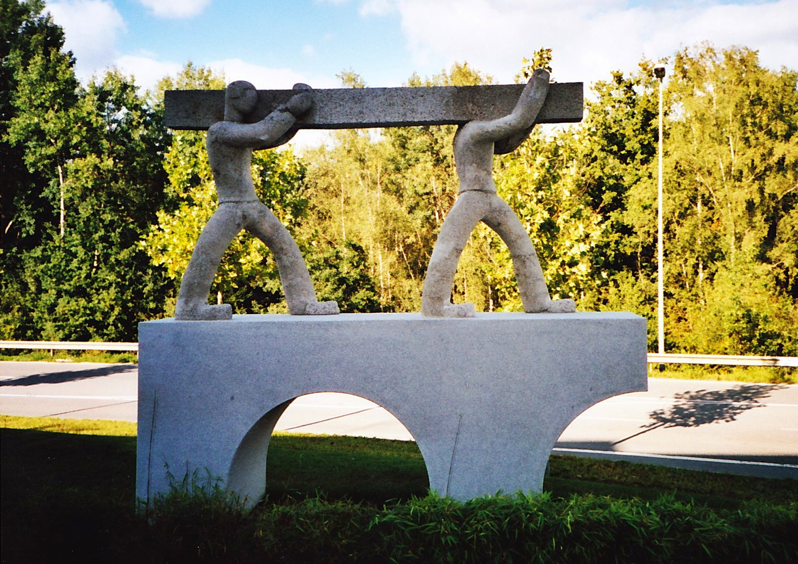 Timber carriers - monument of the sculptor Otto Zirnbauer (1903-1970) for the sapper casern Passau (1968) after being restored and moved to the new place besides the Dreiländerhalle in Passau (2006)